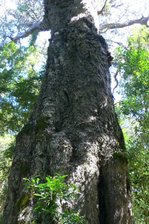 Outeniqua yellowwood (The Big Tree), in Wilderness NR, South Africa, Feb 2007